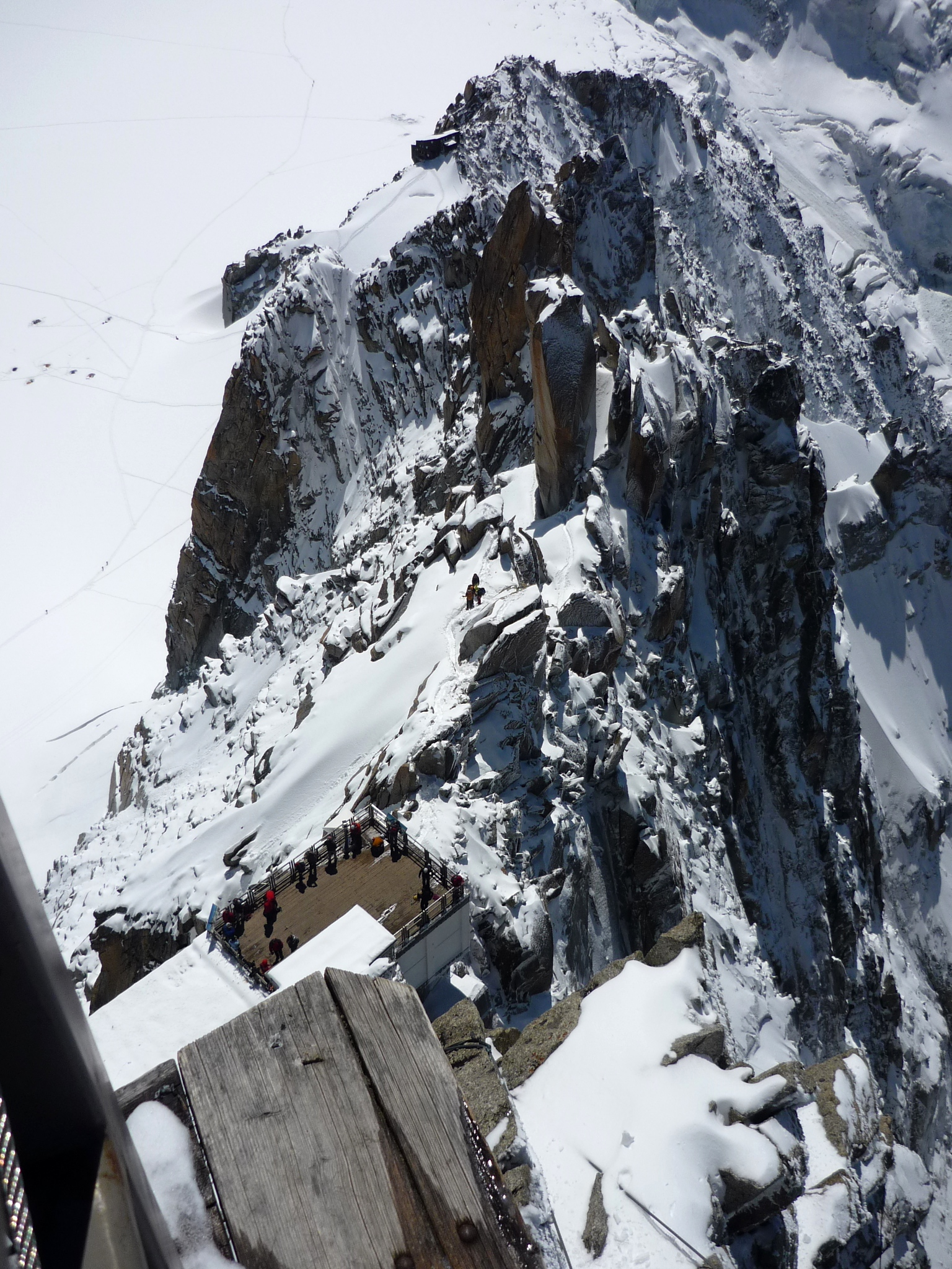 Aiguille du Midi, Chamonix, Haute-Savoie, France